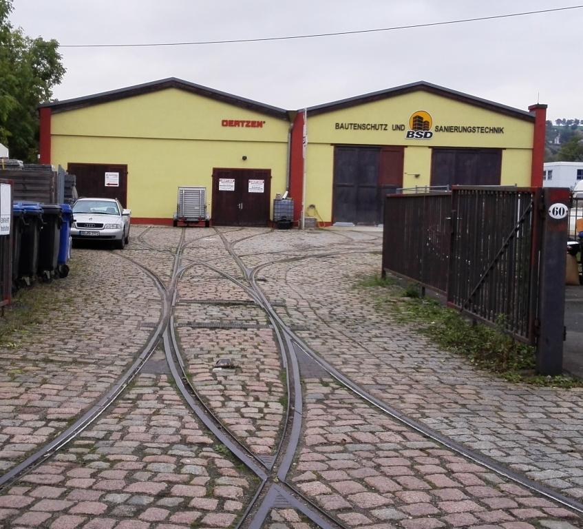 Closed tram depot of Gohlis (Dresden), 2016